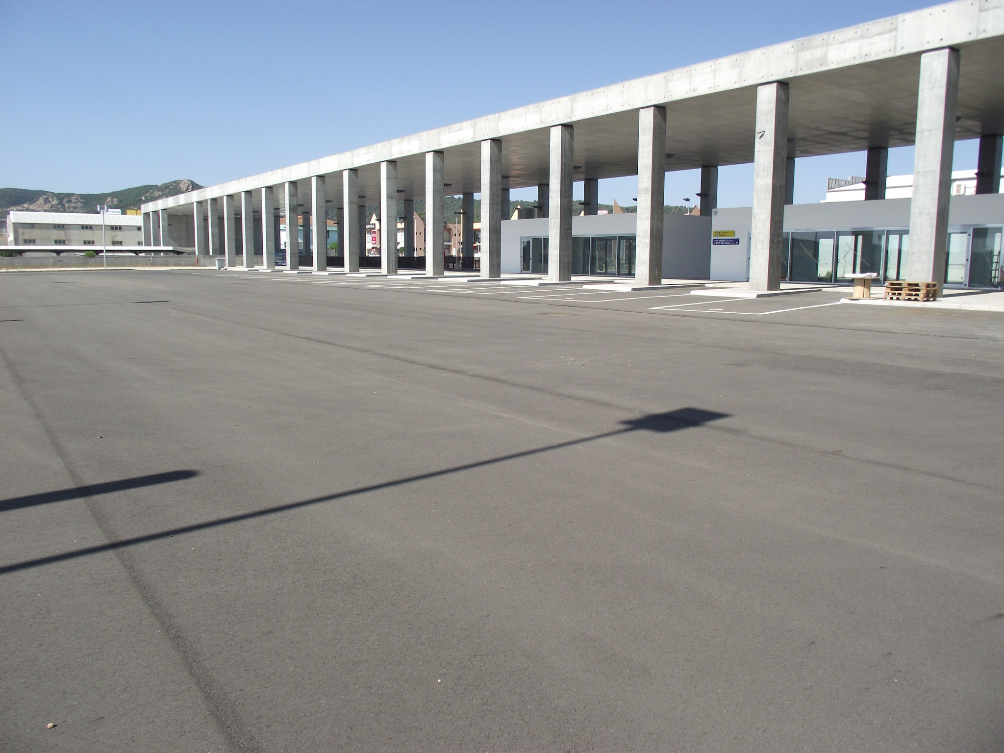 The bus area of the Carbonia Serbariu station, in Carbonia, Sardinia, Italy